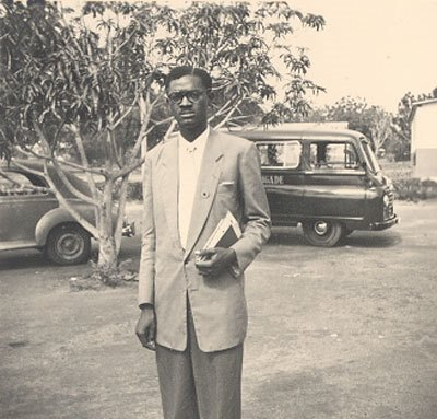 Patrice Lumumba (Collection IISG Amsterdam)